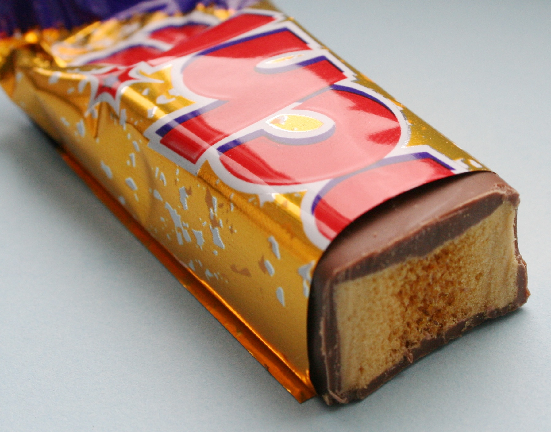 Photograph of a Crunchie bar made by Cadbury, showing its honeycomb toffee structure.